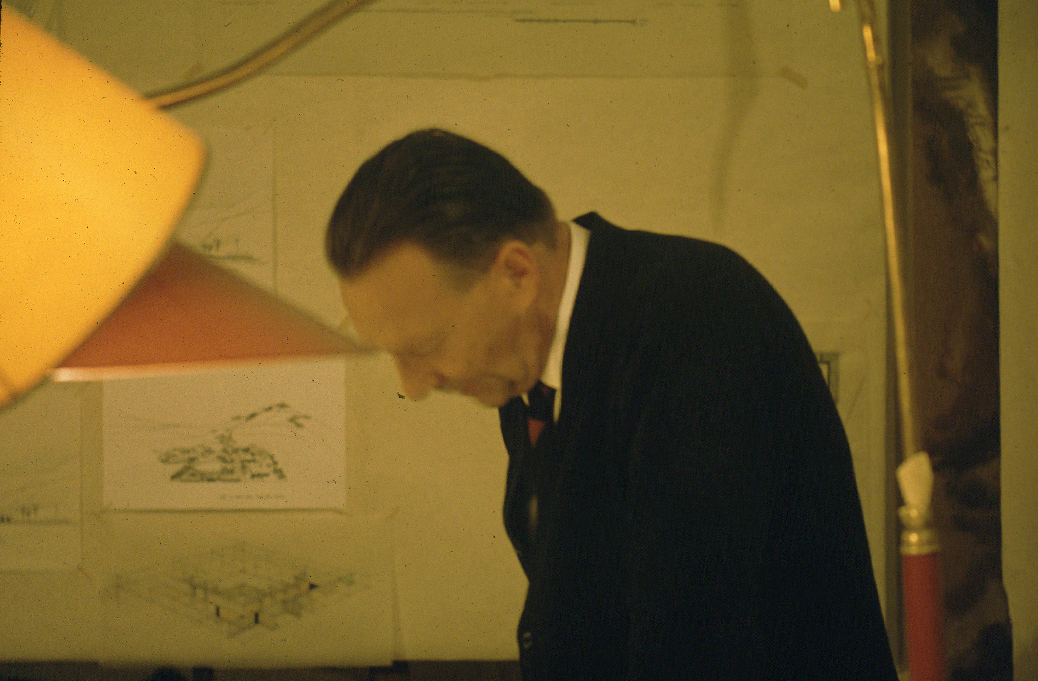 AAR Studio - Morandi - Palace of Justice Competition - Riccardo Morandi visit.